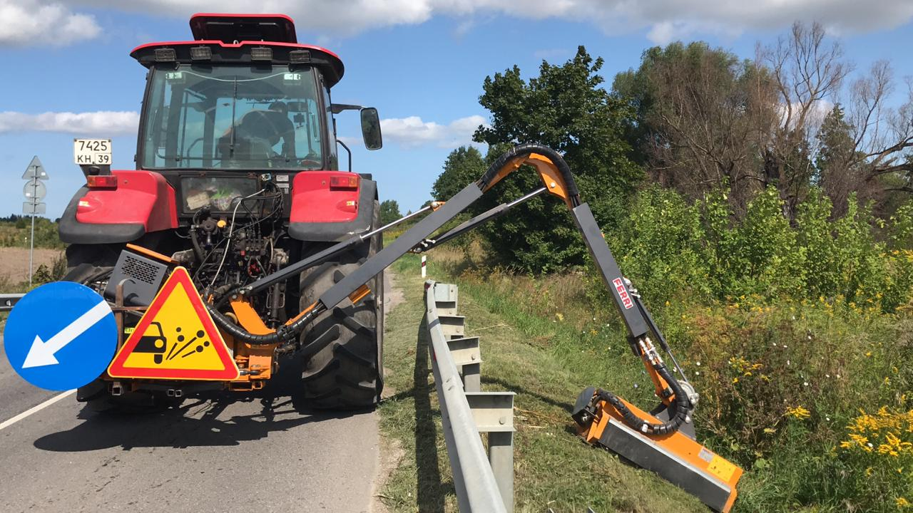 Косилка - мульчировщик для работы через барьерное ограждение